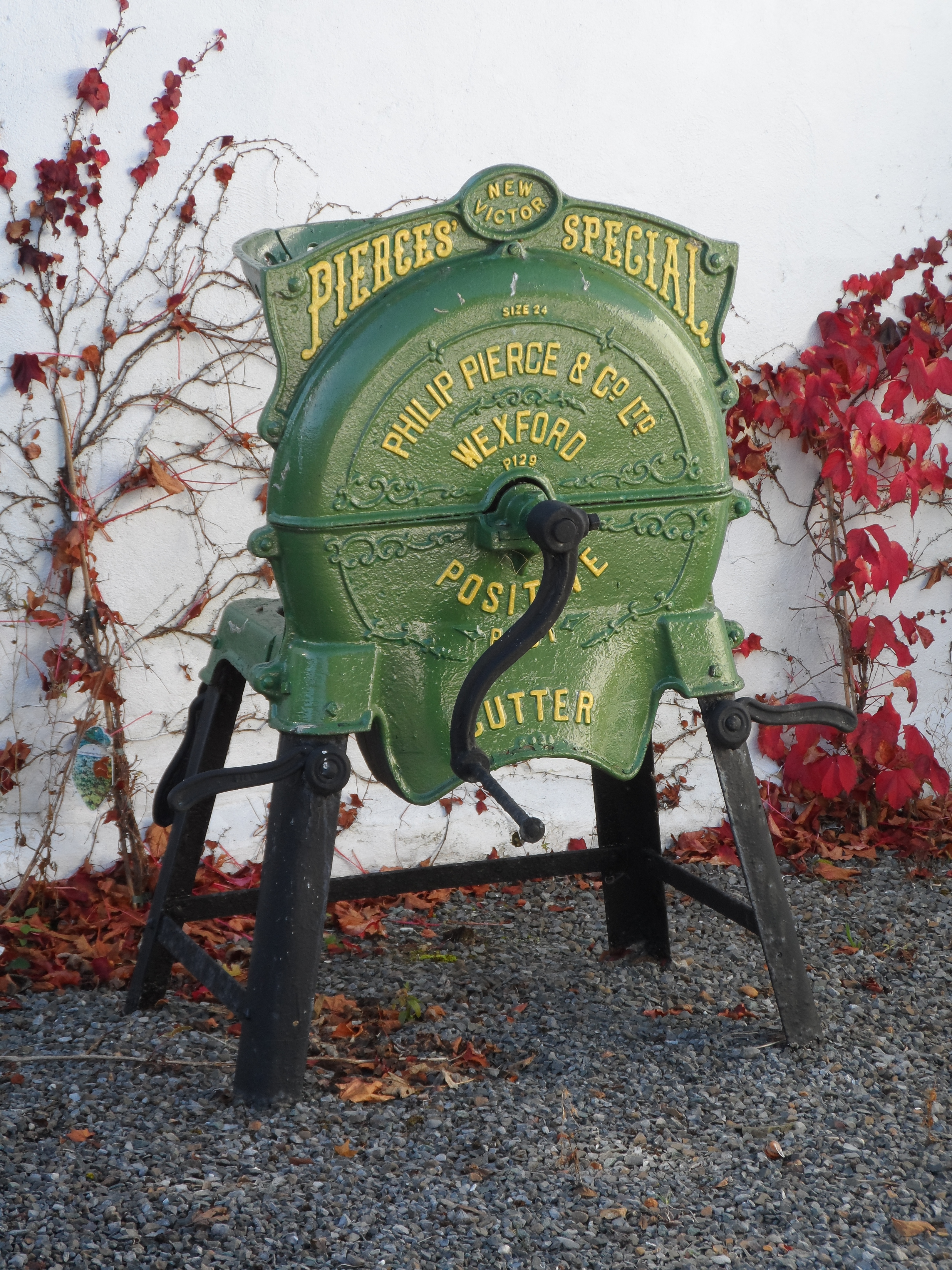 Pierce's of Wexford turnip masher